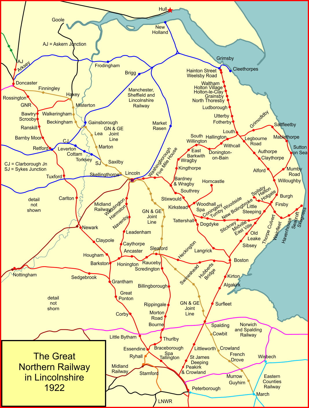 System map of the Great Northern Railway in Lincolnshire, England, in 1922